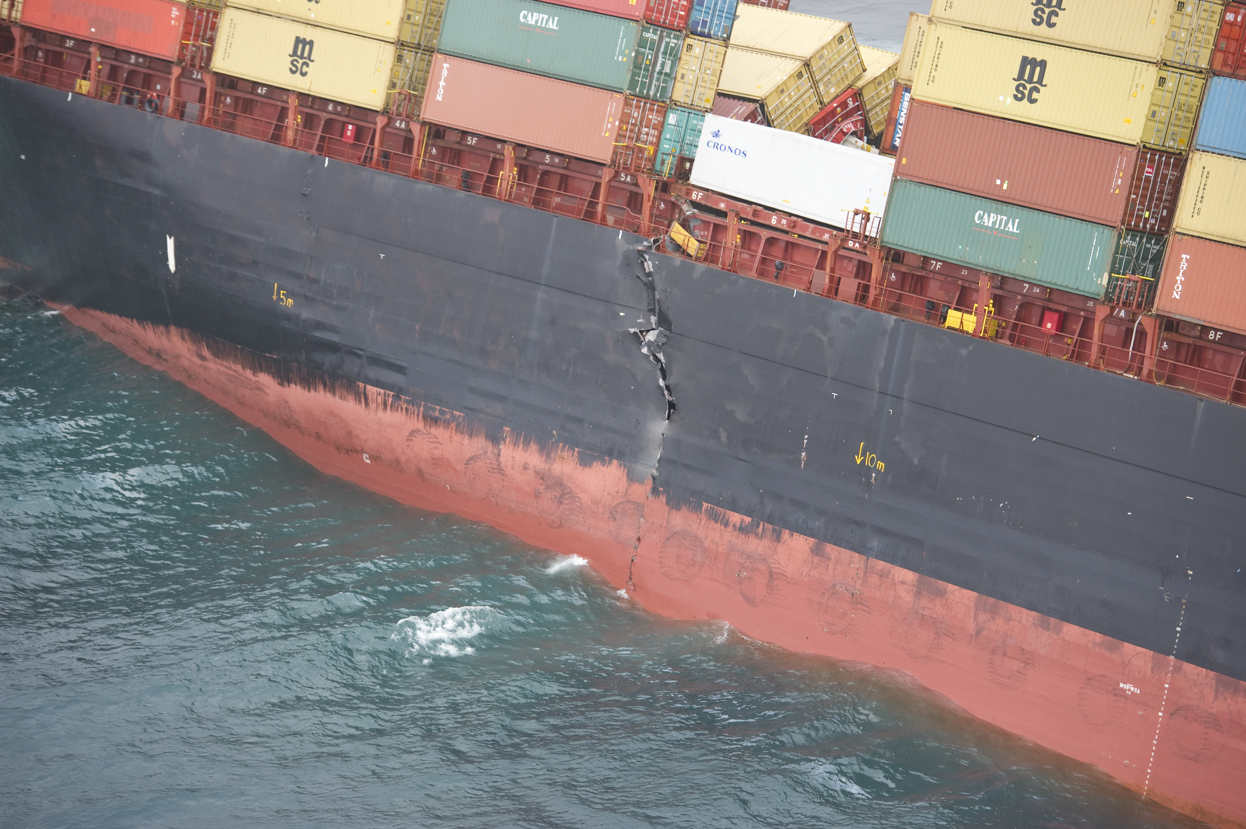 Aerial view of grounded ship Rena